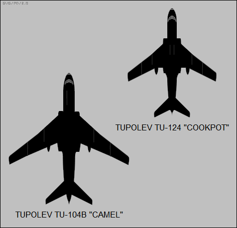 Plan-view silhouettes of the Tupolev Tu-104 and Tu-124 airliners